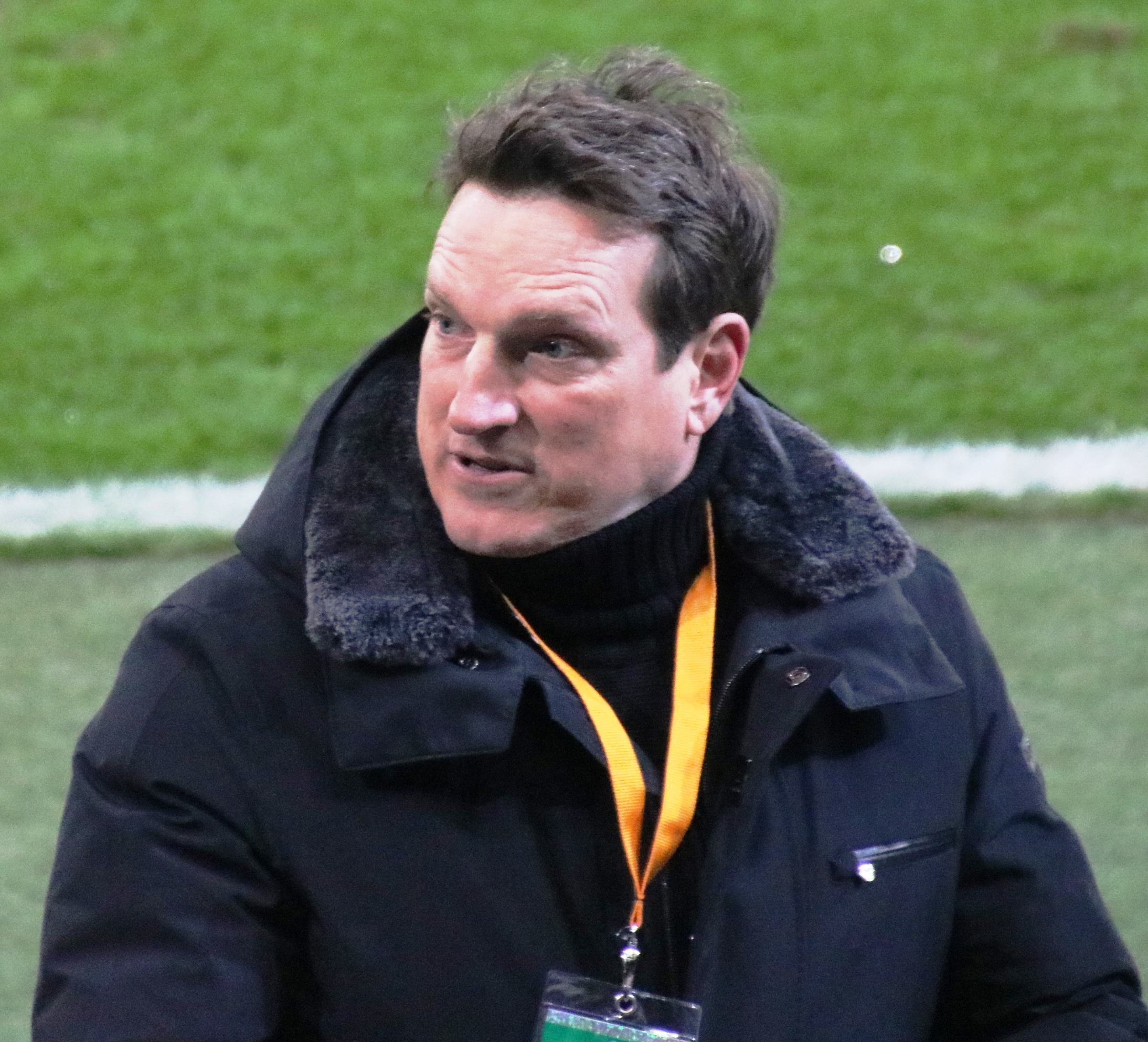 Uefa Europaleague round of 32